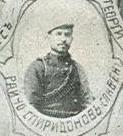 Portrait of SMAC member Raycho Spiridonov from Sliven